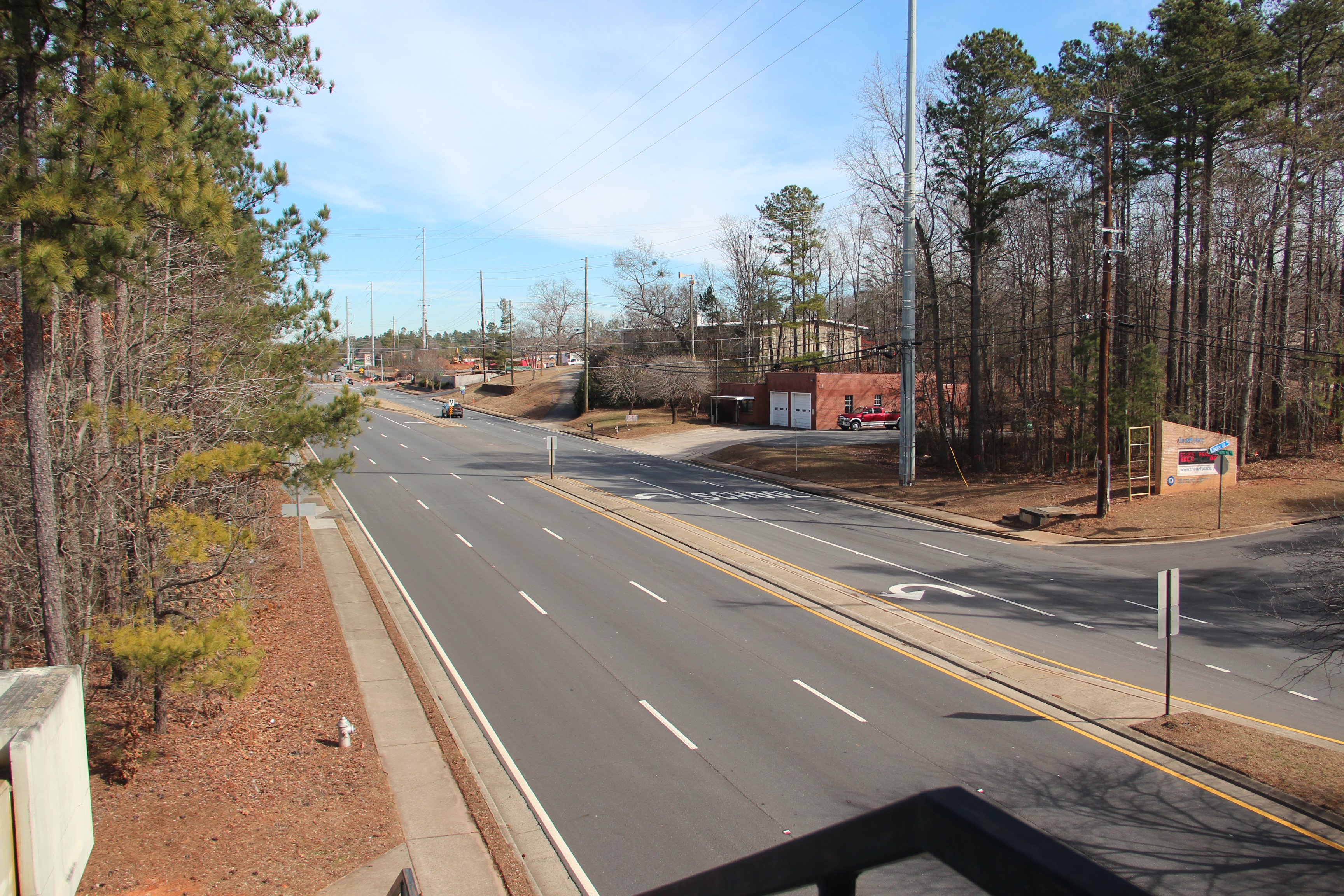 Sandy Plains Road, Cobb County